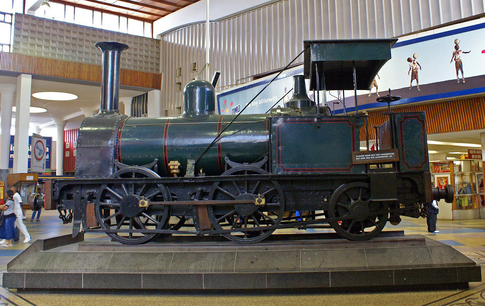 Got the chance to reshoot this photo today when I passed through the station. The bright backlight still makes this a bit difficult. Original photo at It is a 0-4-2 Hawthorn Leslie of Leith 1852. The station has two main parts, local travel platforms and the other side being for national departures. Blackie hauled the first train between Cape Town and Eersterivier on 13th February, 1862. This loco is situated on the national side so you would not see it if you travelled on local trips. The miniature coin operated train appears to have been removed.